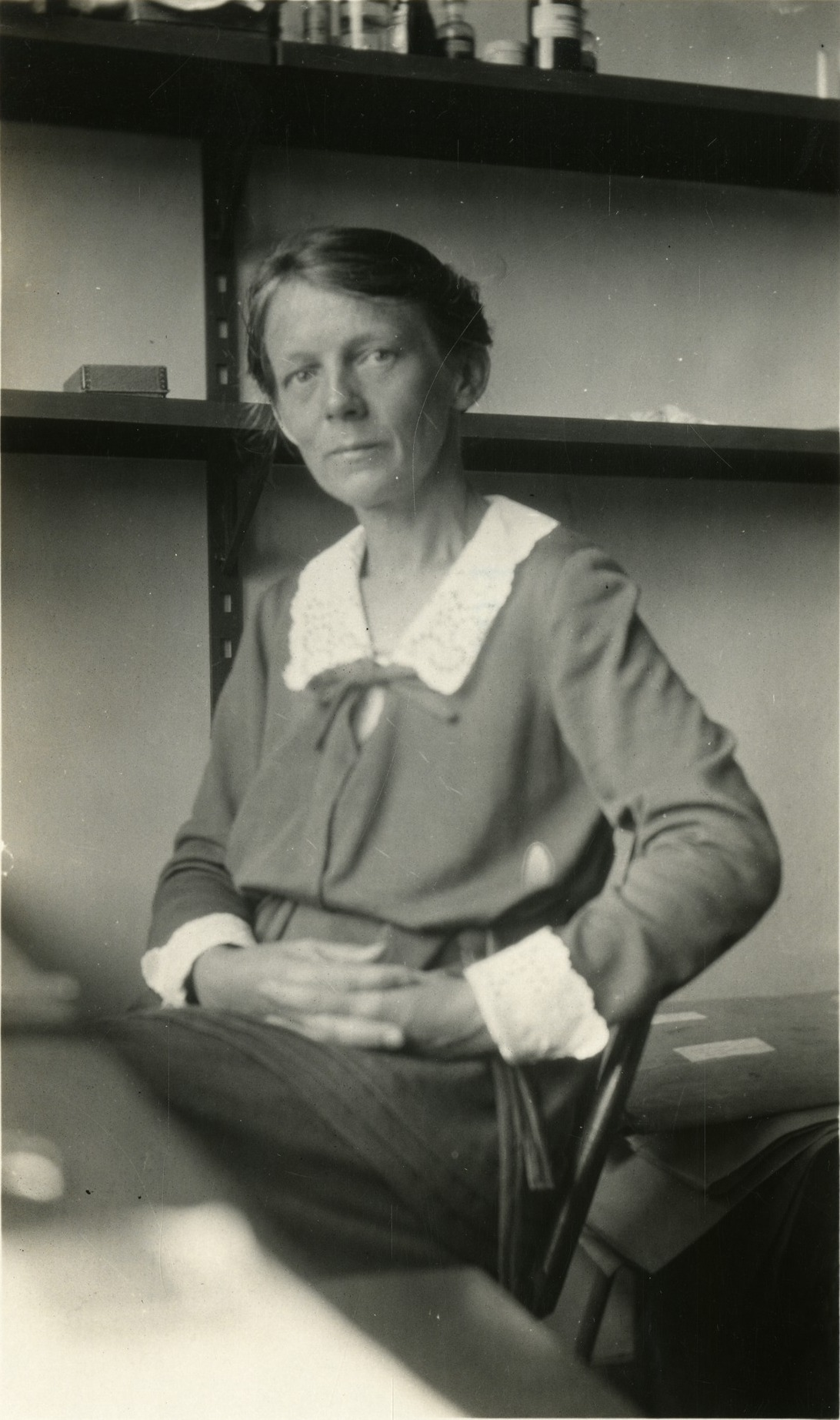 Subject: Lewis, Margaret Reed 1881-1970 Columbia University Carnegie Institution of Washington Type: Black-and-white photographs Topic: Physiology Anatomy Women scientists Local number: SIA Acc. 90-105 [SIA2008-5298] Summary: Physiologist and anatomist Margaret Reed Lewis (1881-1970), an authority on tumors, had served as an assistant to Thomas Hunt Morgan at Columbia and then worked as a research collaborator in the embryology department of the Carnegie Institution of Washington, 1915-1946; she was married to scientist Warren Harmon Lewis (d. 1964) Cite as: Acc. 90-105 - Science Service, Records, 1920s-1970s, Smithsonian Institution Archivess Persistent URL:Link to data base record Repository:Smithsonian Institution Archives View more collections from the Smithsonian Institution.